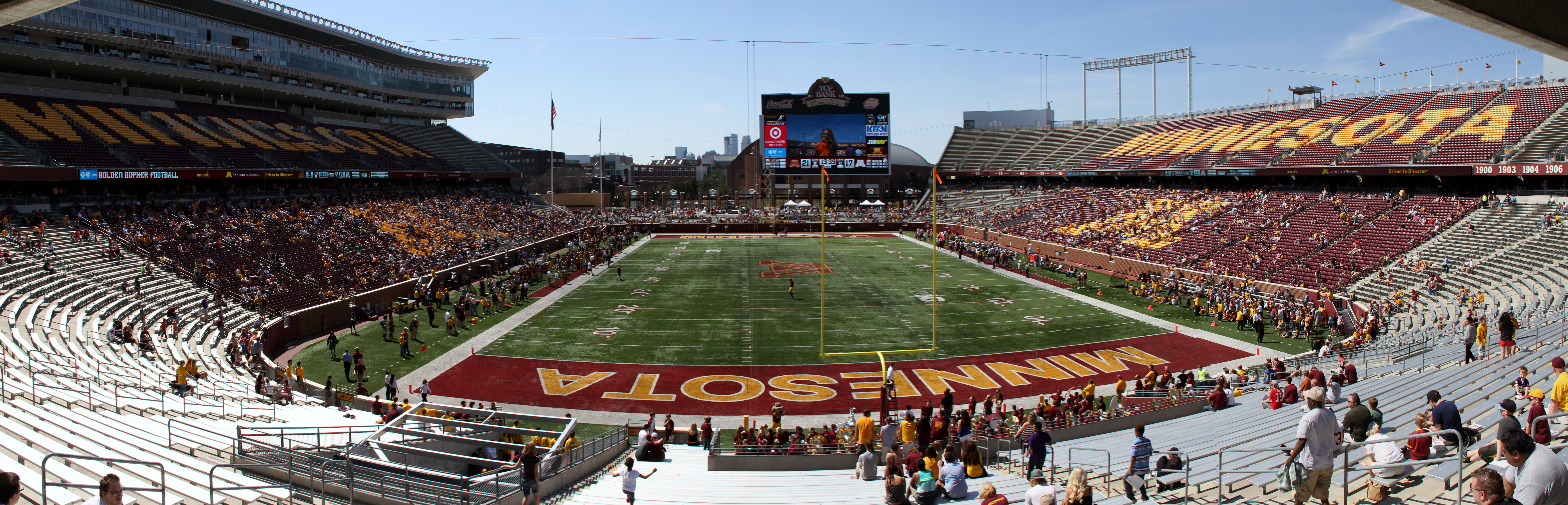 The Minnesota Golden Gophers football team's 2013 Spring Game in TCF Bank Stadium, Minneapolis, Minnesota, USA.